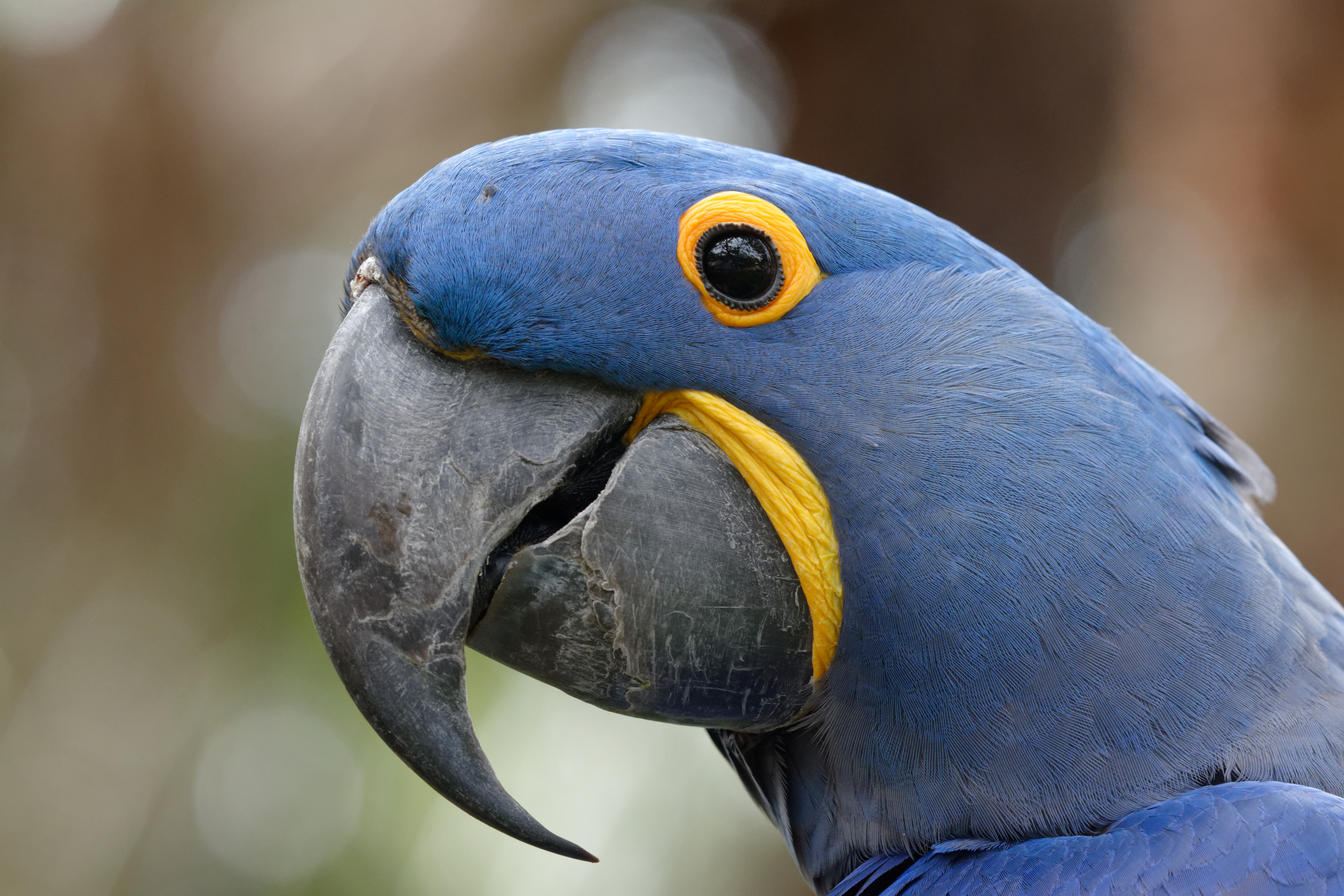 The head of a hyacinth macaw, Alligator Farm, St. Augustine, Florida, U.S.